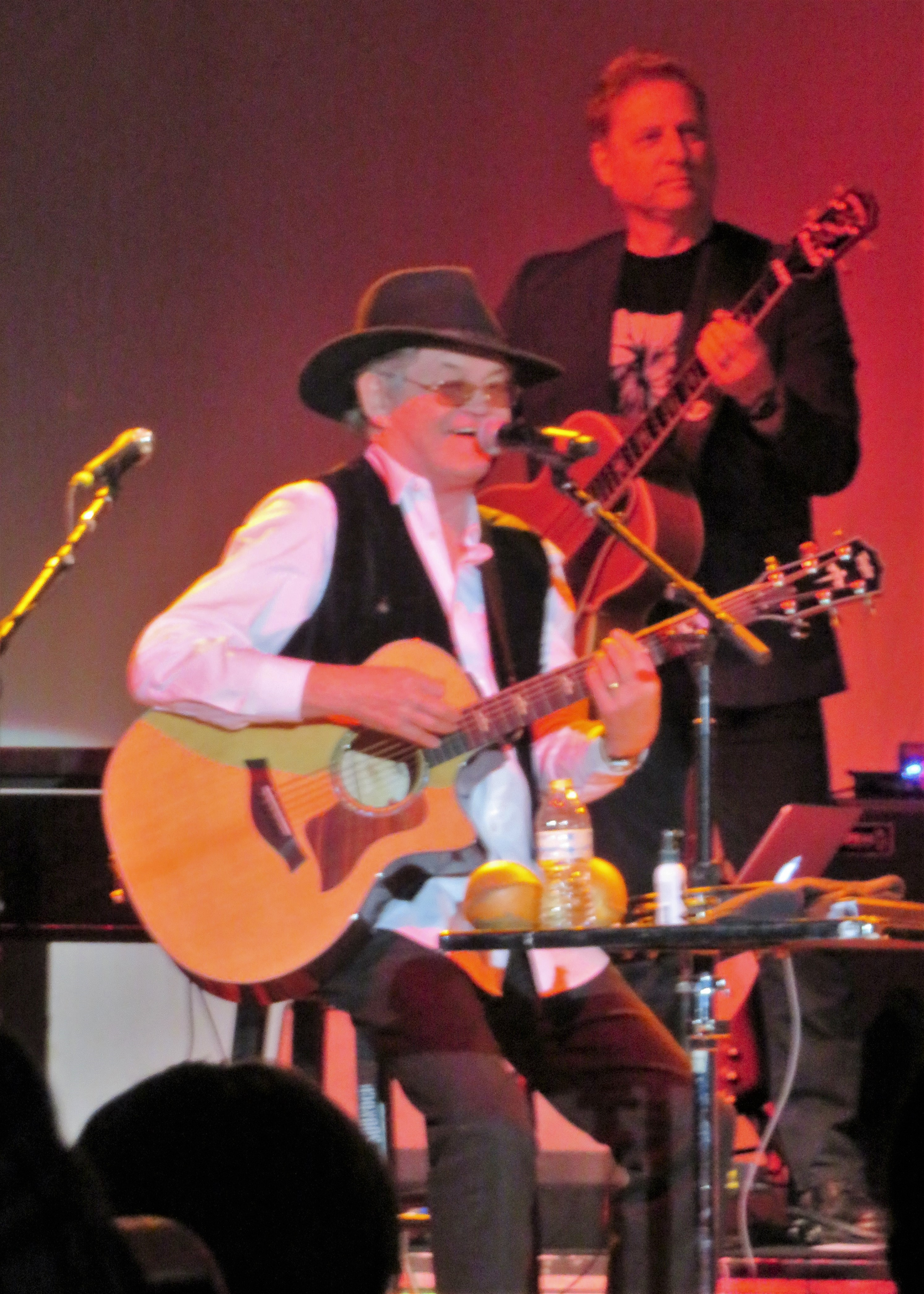 Micky Dolenz and Michael Nesmith of the Monkees tour together. Royal Oak Music Theater. 03/12/2019